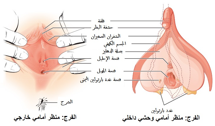 Illustration from Anatomy & Physiology, Connexions Web site. Jun 19, 2013